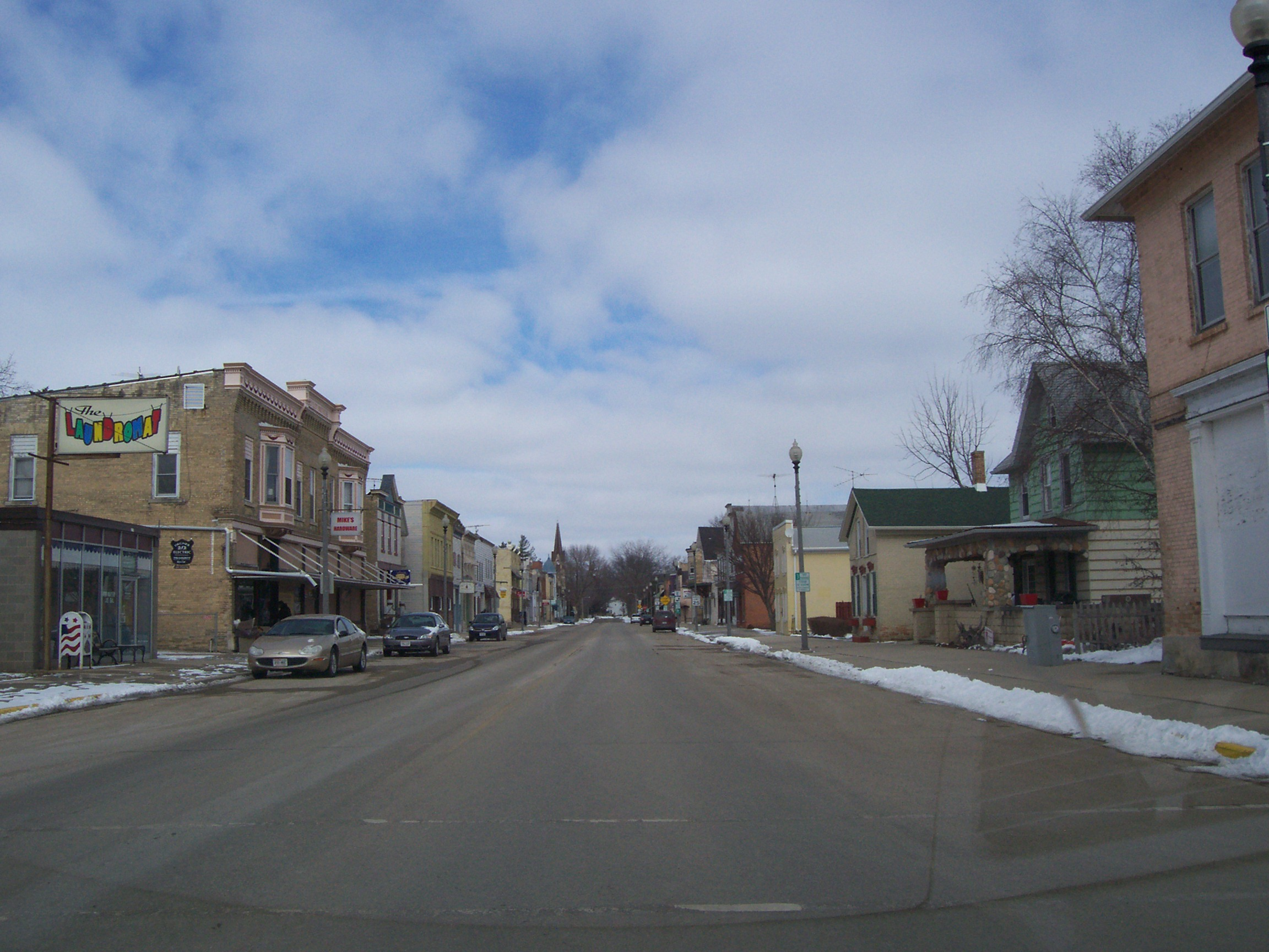 Looking north at downtown Hustisford, Wisconsin.